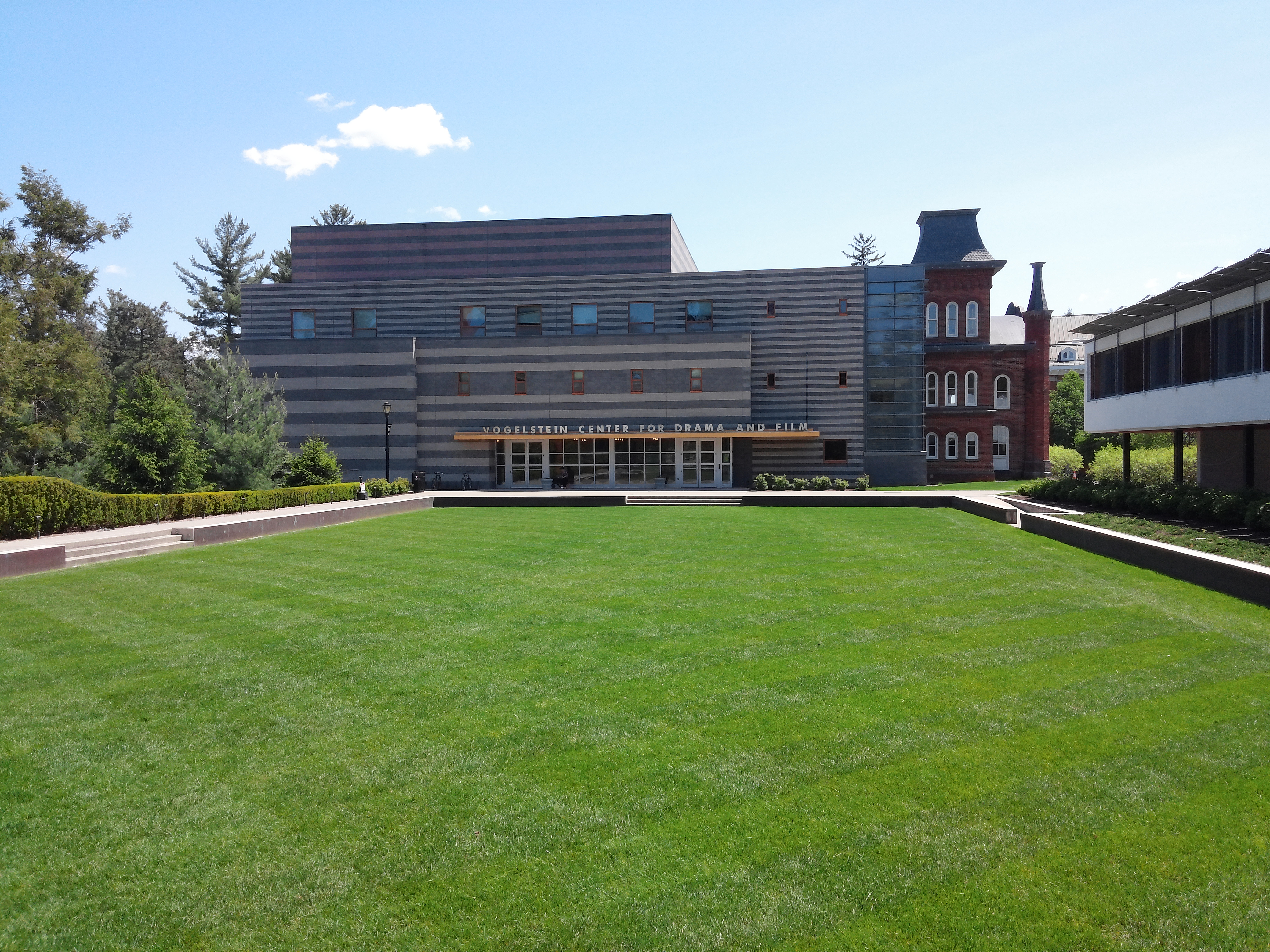 The Vogelstein Center for Drama and Film on the campus of Vassar College in the town of Poughkeepsie, New York. Taken from across the Quadrangle. Ferry House is to the left.